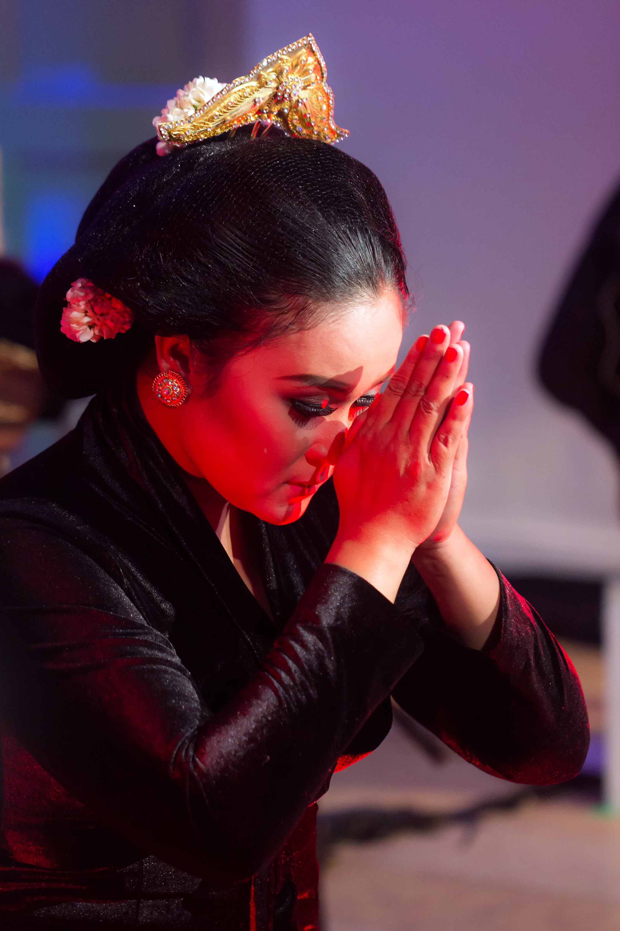 Javanese tembang and dance fusion performance, Sonobudoyo Museum, Yogyakarta, 2017-12-05